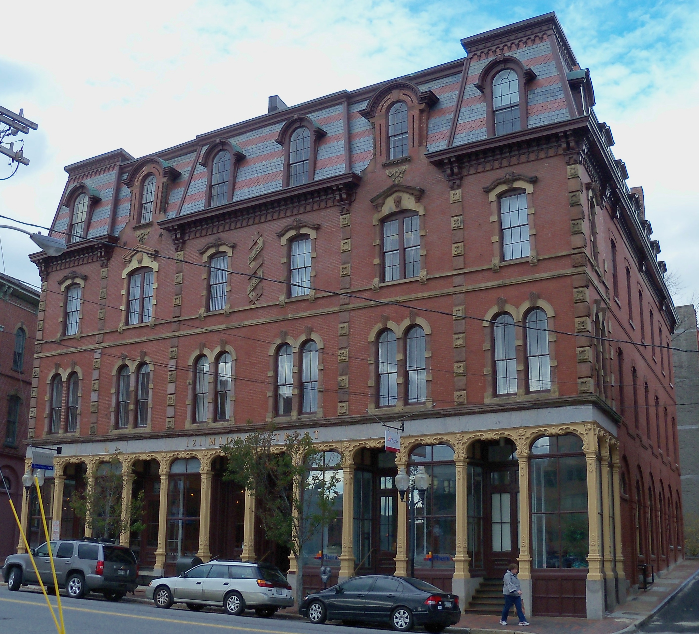 Building in downtown Portland, Maine, USA.